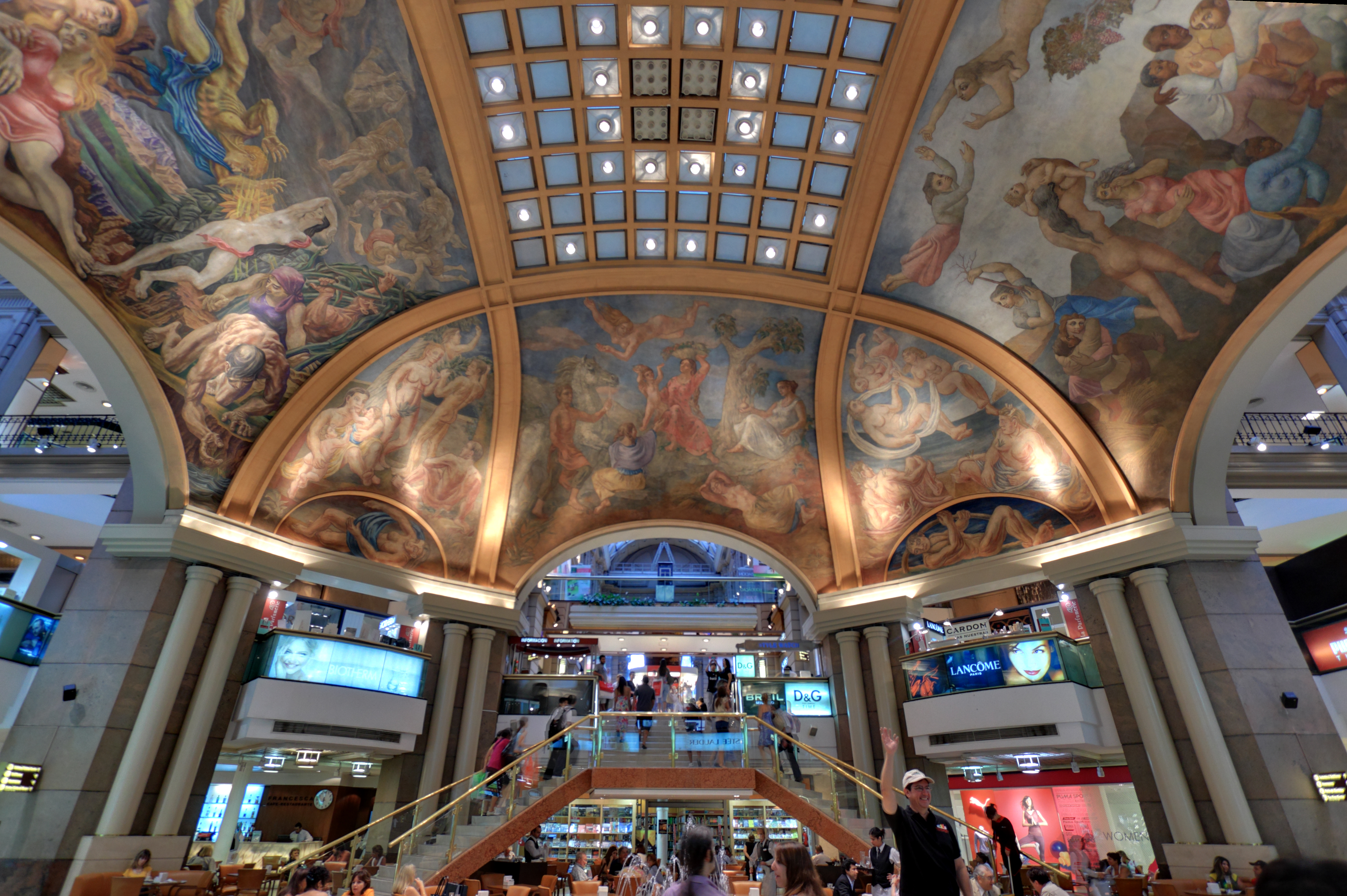 Please, have this description accessible to all by translating it in different languages.